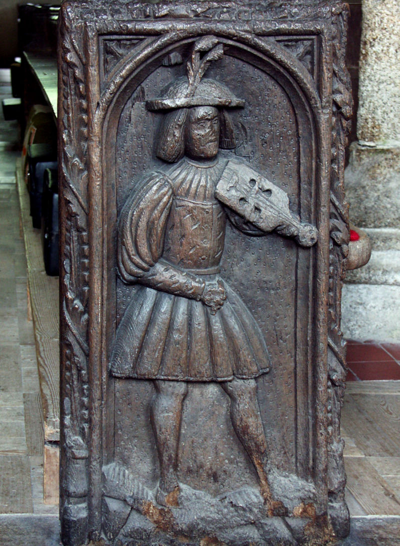 Parish Church of St. Nonna, Altarnun, Cornwall, England